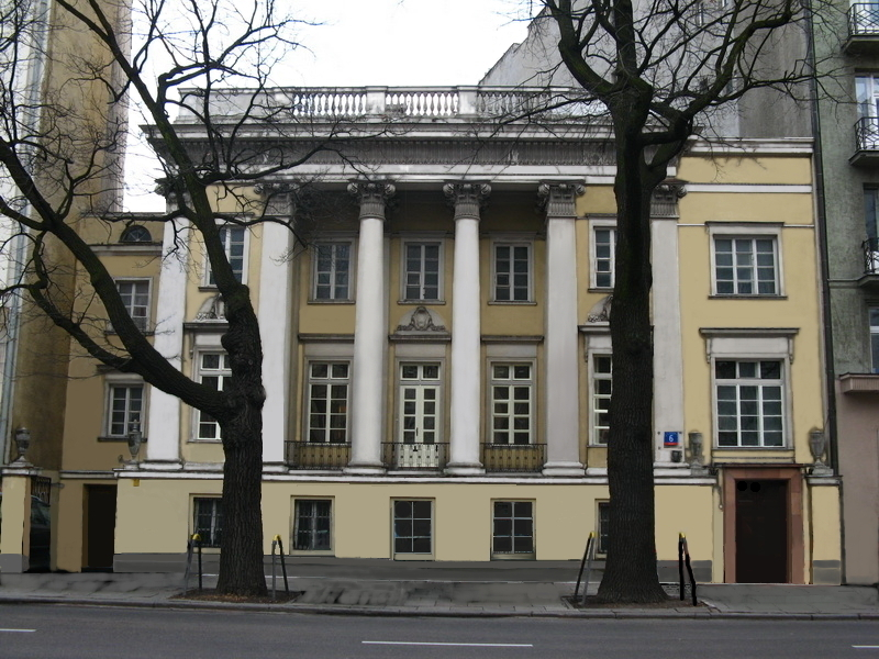 Szuchs Allé